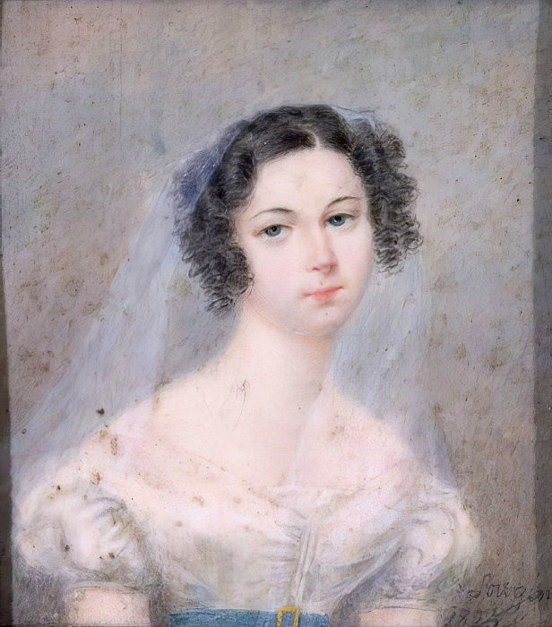 Portrait of Ewelina Hańska by Holz von Sowgen, 1825, miniature on ivory. Maison de Balzac. Inv. : 34.